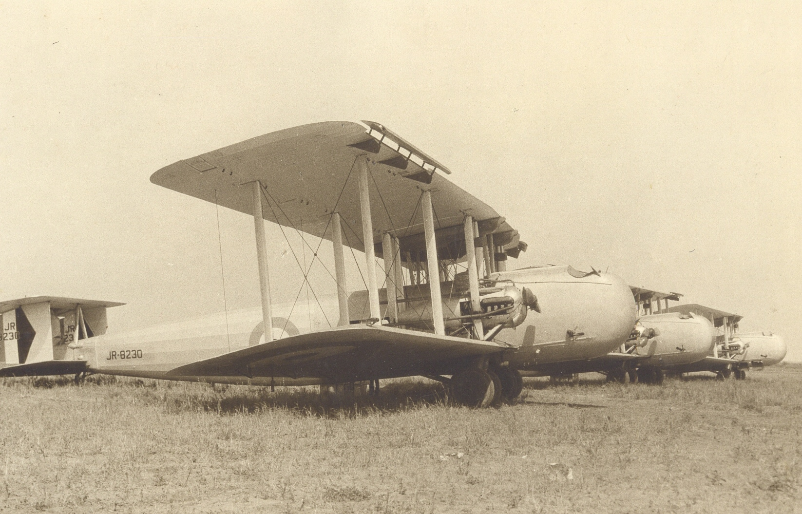 A A Koch photograph of Vickers Victorias of No 216 Squadron, taken at RAF Ismailia c1929. Australian copyright has expired. This file is NOT an orphan image. It is linked to Aubrey Koch.Lexysexy (talk) 09:06, 20 December 2011 (UTC)